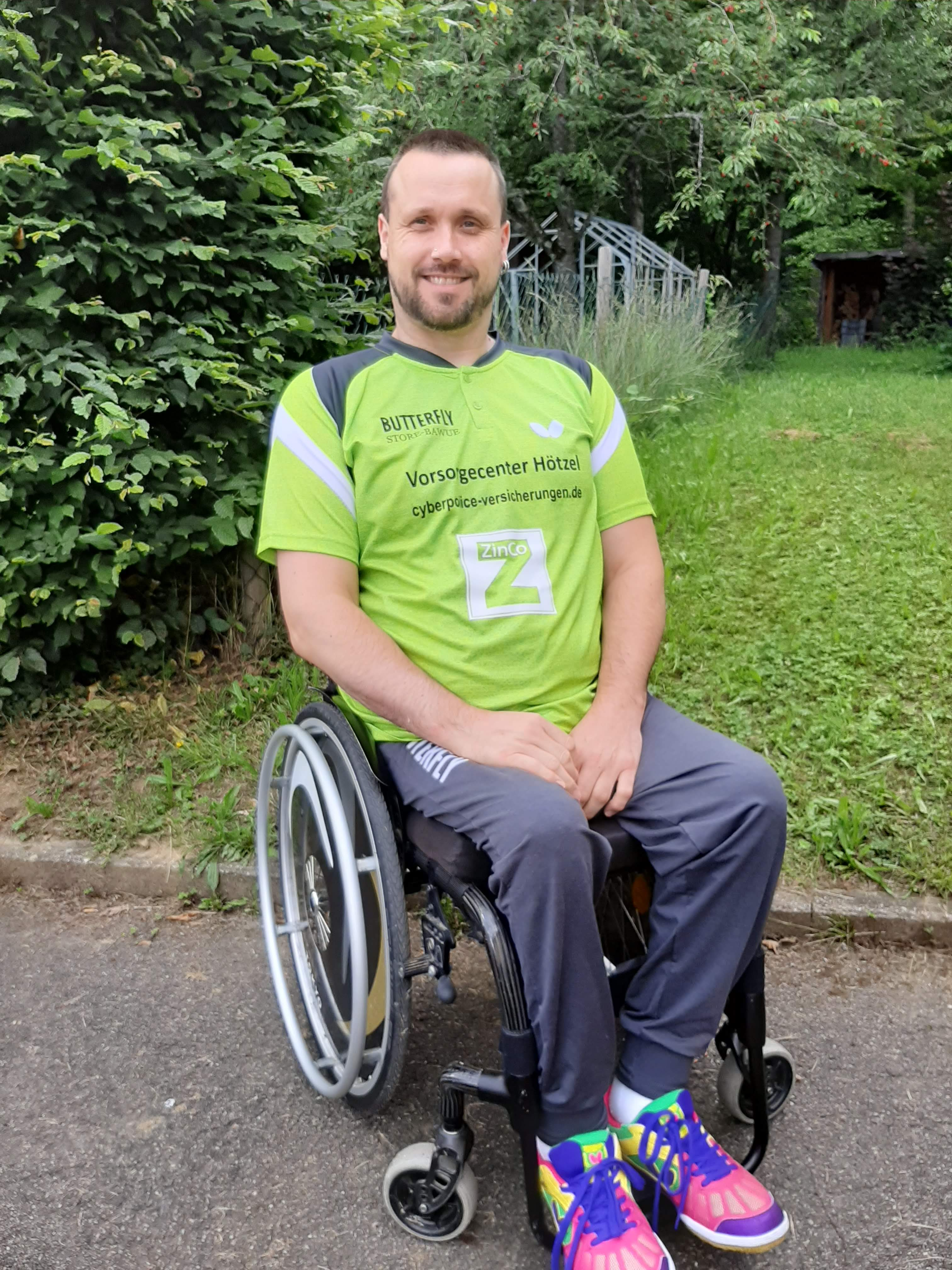 Para-Tabletennis-Player Thomas Brüchle